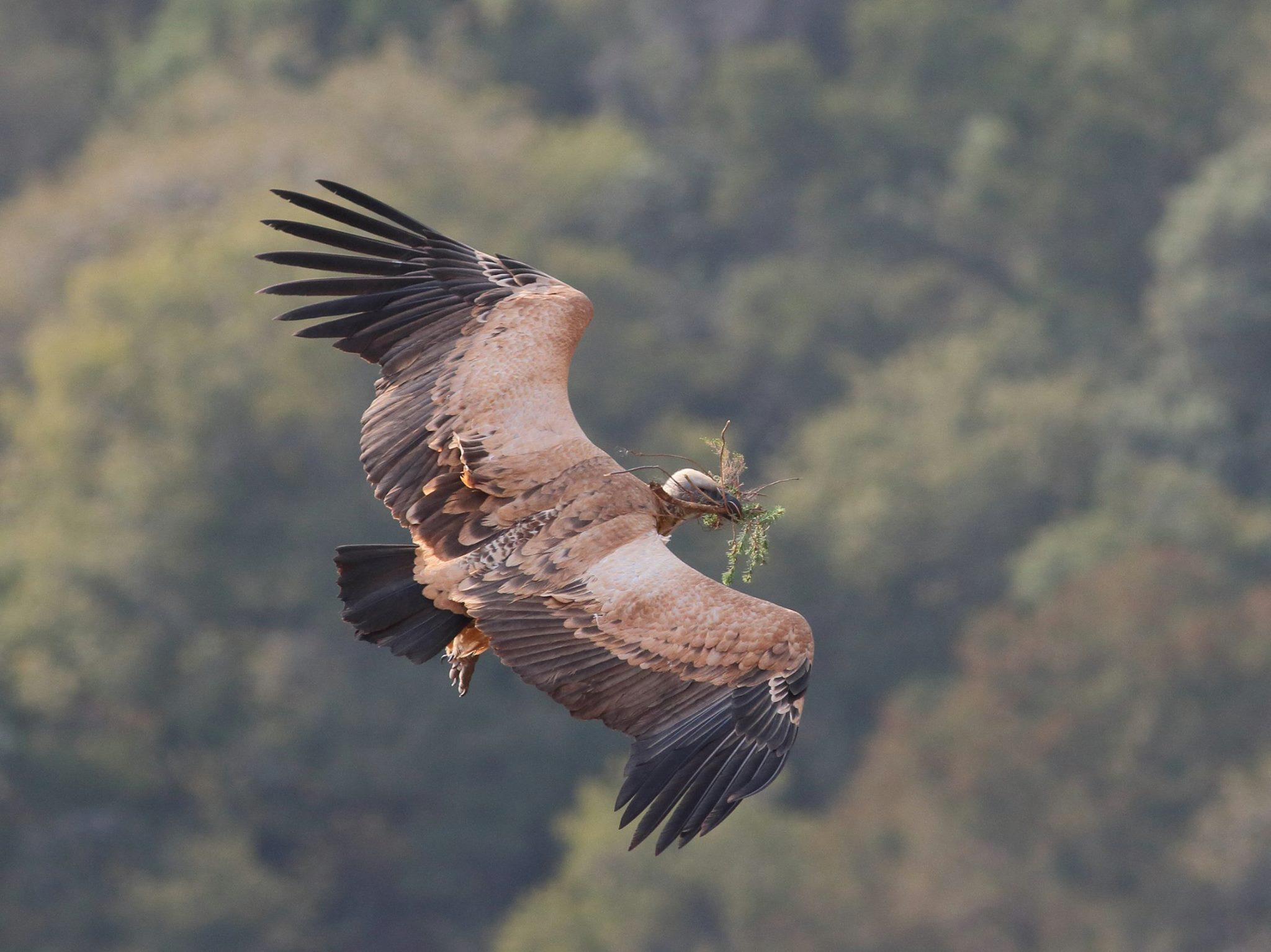 Gyps coprotheres (Cape vulture) with nesting material - Nooitgedacht, Hekpoort, Magaliesberg, South Africa